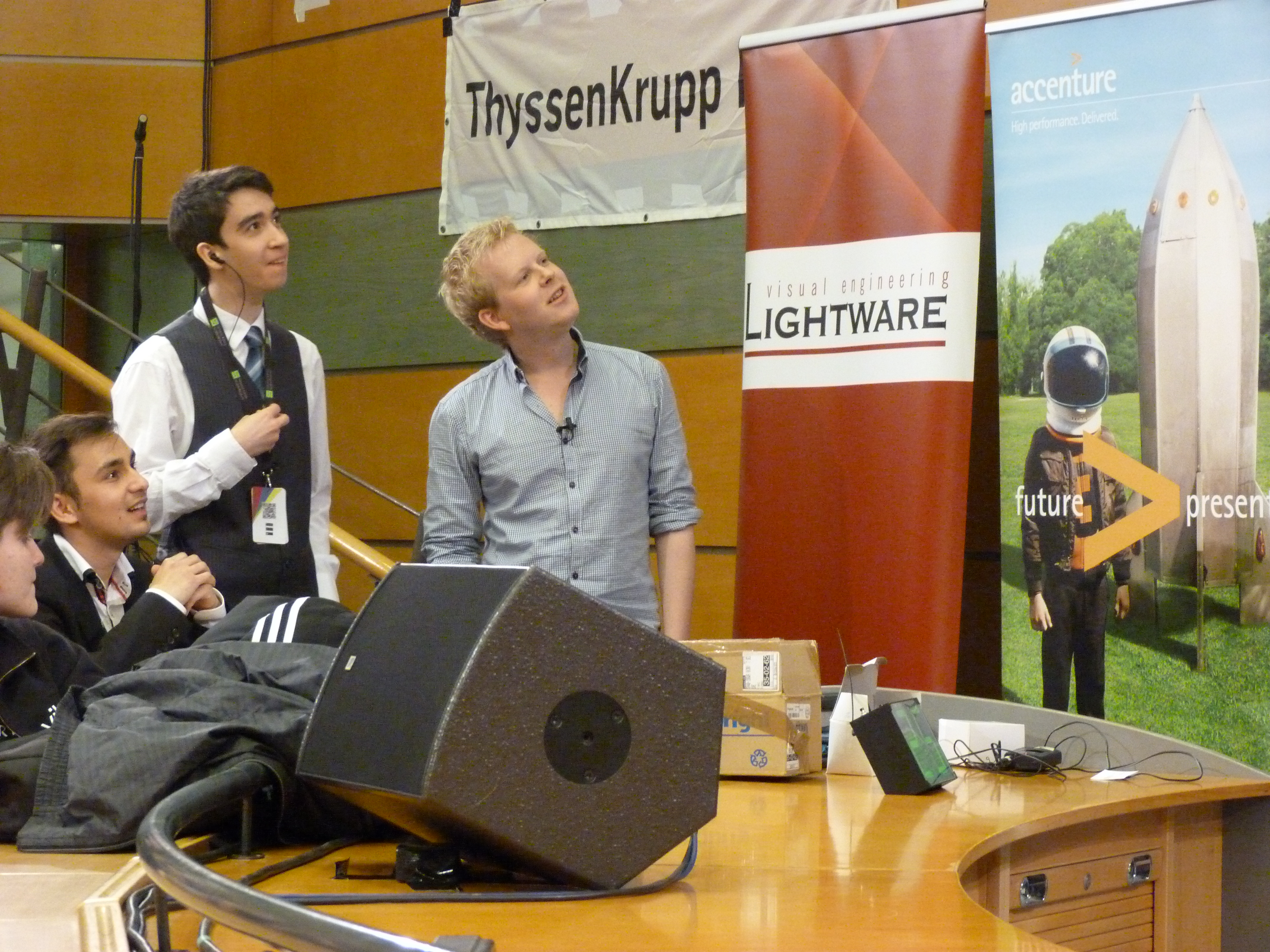 XI. Simonyi Conference – 2014.04.15 Live on the 15th of April, 2014. Budapest, Budapesti Műszaki Egyetem. The Simonyi Conference is the greatest student organized professional event of both the Vocational College and the Faculty of Electric Engineering and Informatics. Simonyi Károly (father of Charles SimonyI) worked at the Budapesti Műszaki Egyetem, his lectures and engagement for engineering science was outstanding. Detailes in Hungarian. ©© Derzsi Elekes Andor, Budapest, 2014, You are authorised to use these photos and vids under Creative Commons – even for commercial, for profit purposes. Photos must be attributed to Derzsi Elekes Andor. All of the photos and vids in the Metapolisz DVD line are under Creative Commons and can be used even for commercial – for profit – purposes. Recommended Citation Derzsi Elekes Andor: Metapolisz DVD line Sources